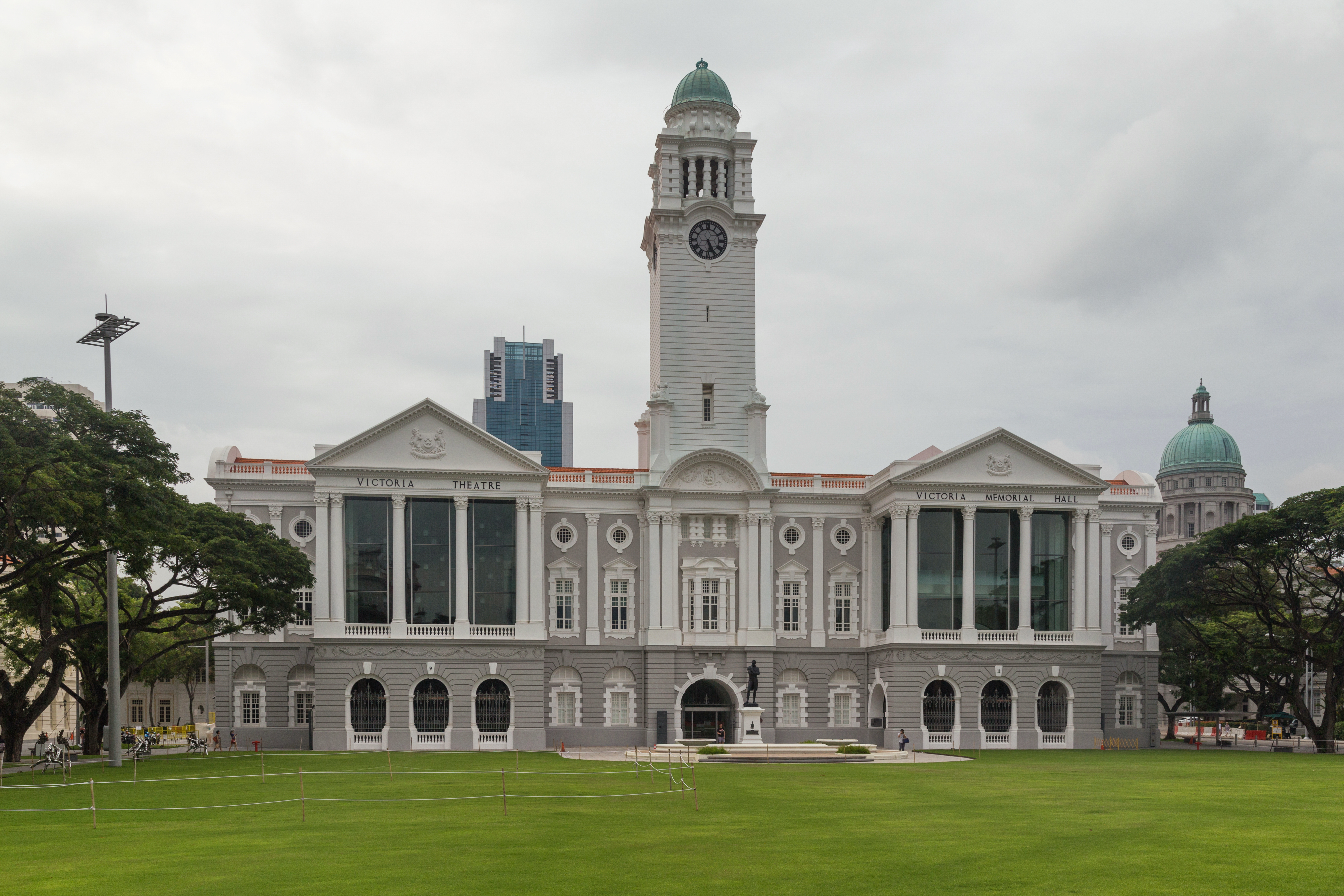 Victoria Theatre and Concert Hall. Downtown Core, Central Region, Singapore.